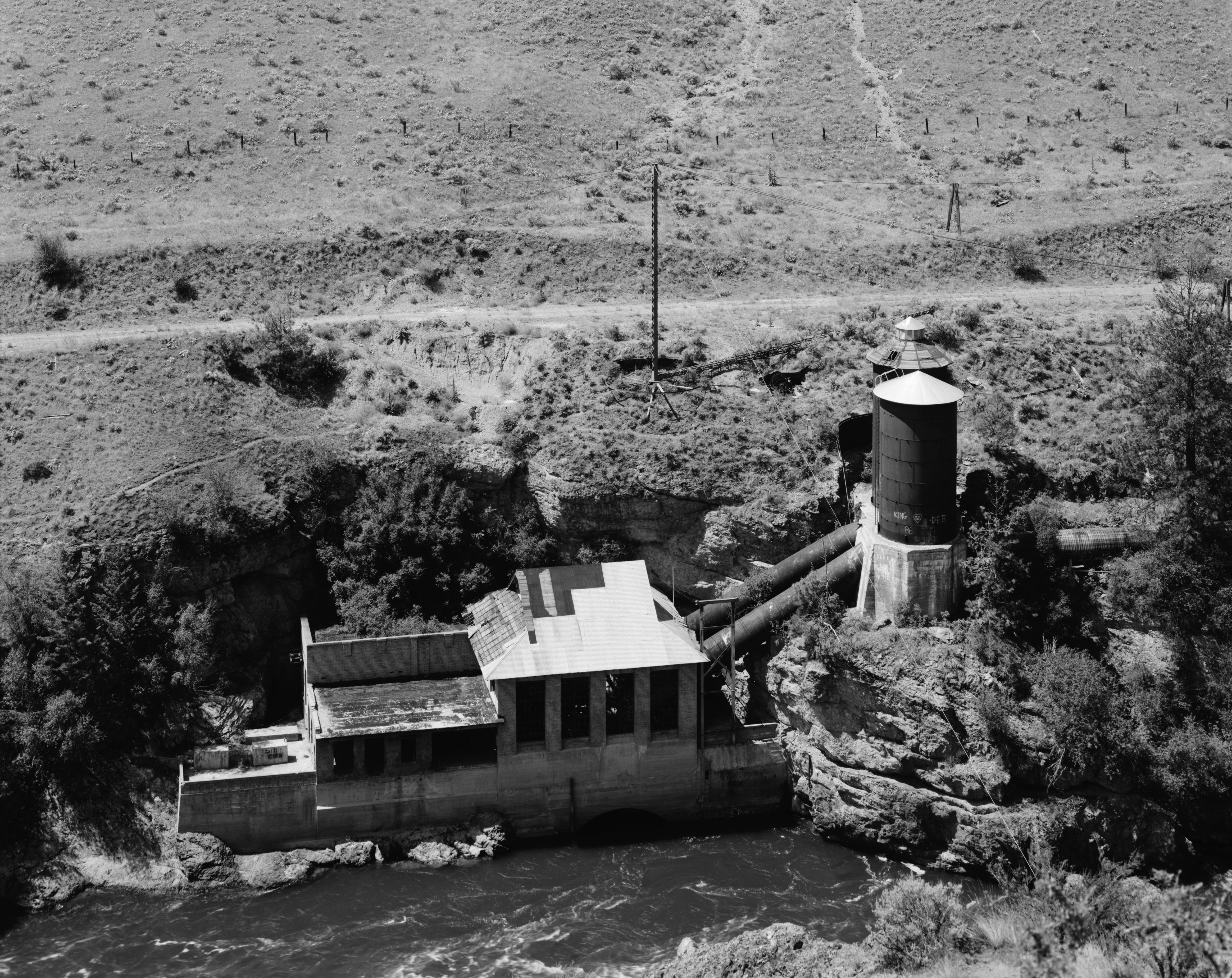 The Powerhouse at Enloe Dam, Oroville, Washington.